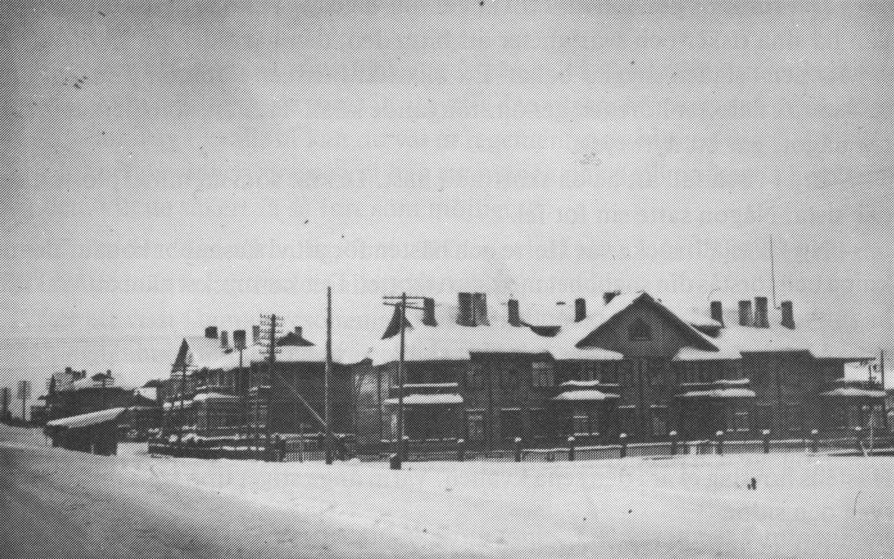 Podporozhye.